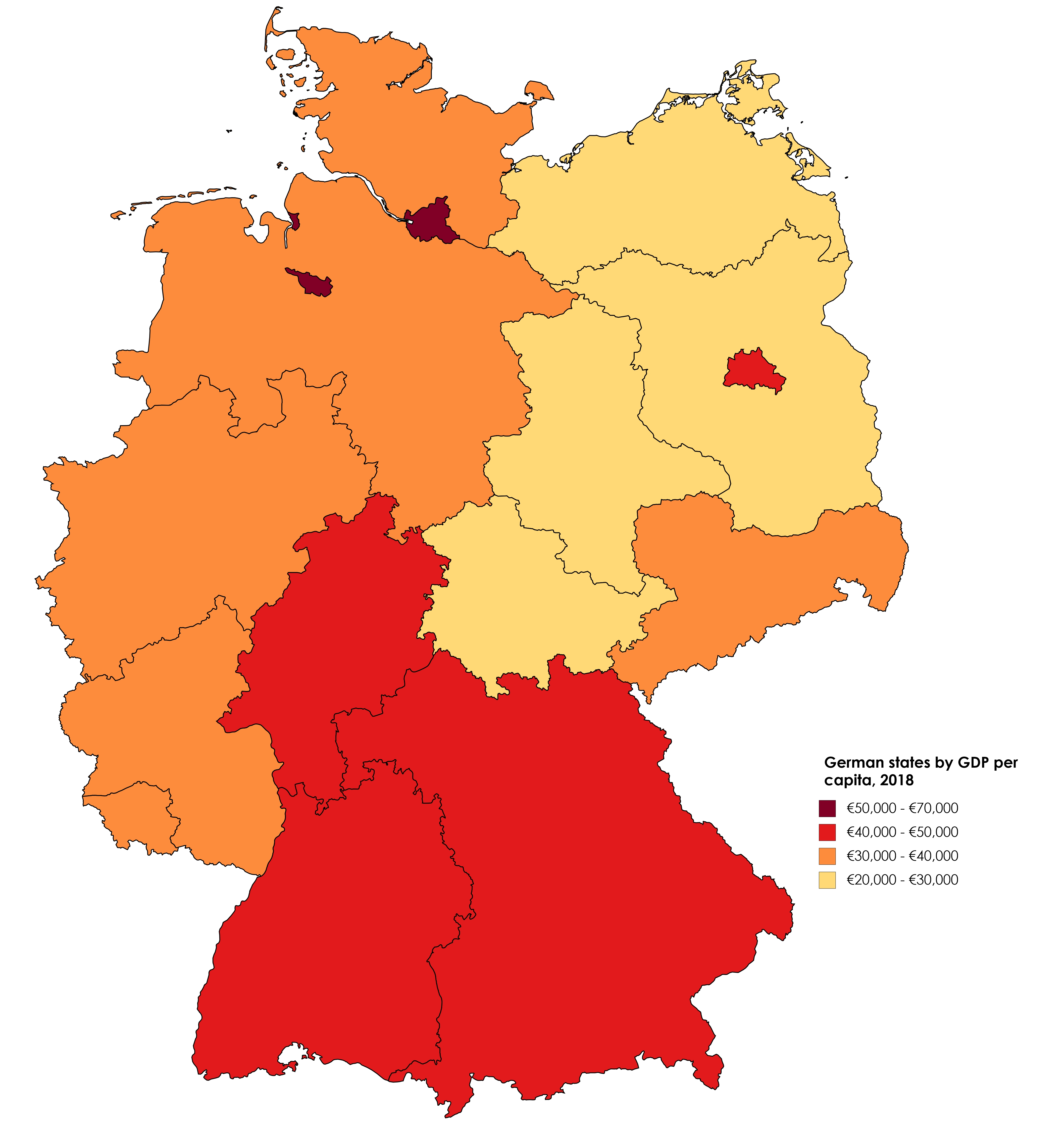 German states by nominal GRP per capita in 2018